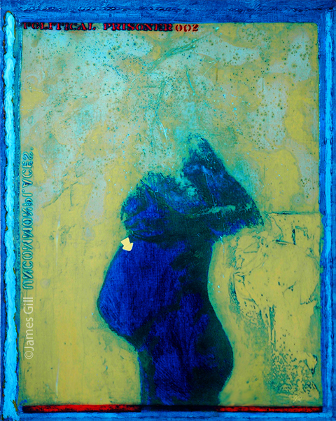 A painting of James Gill with the title "Political Prisoner". Created around 1968.